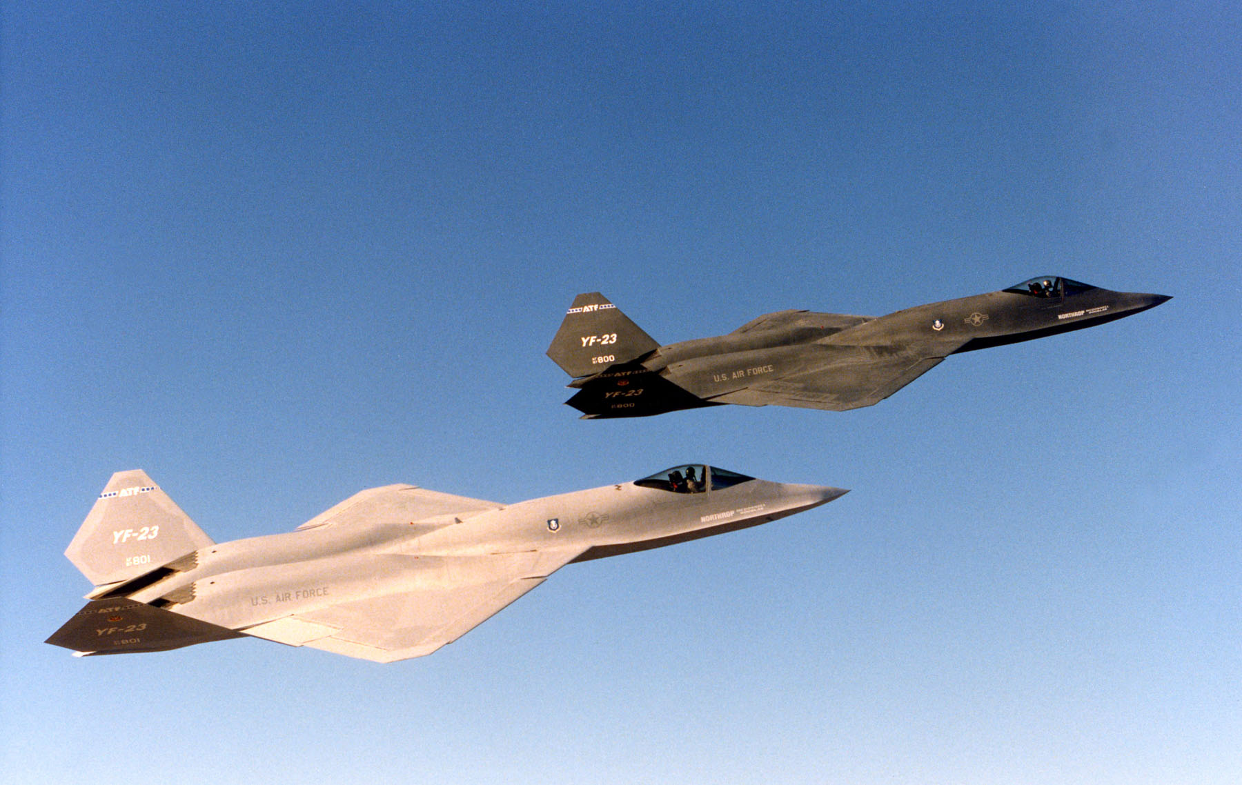 two yf-23 in formation flight